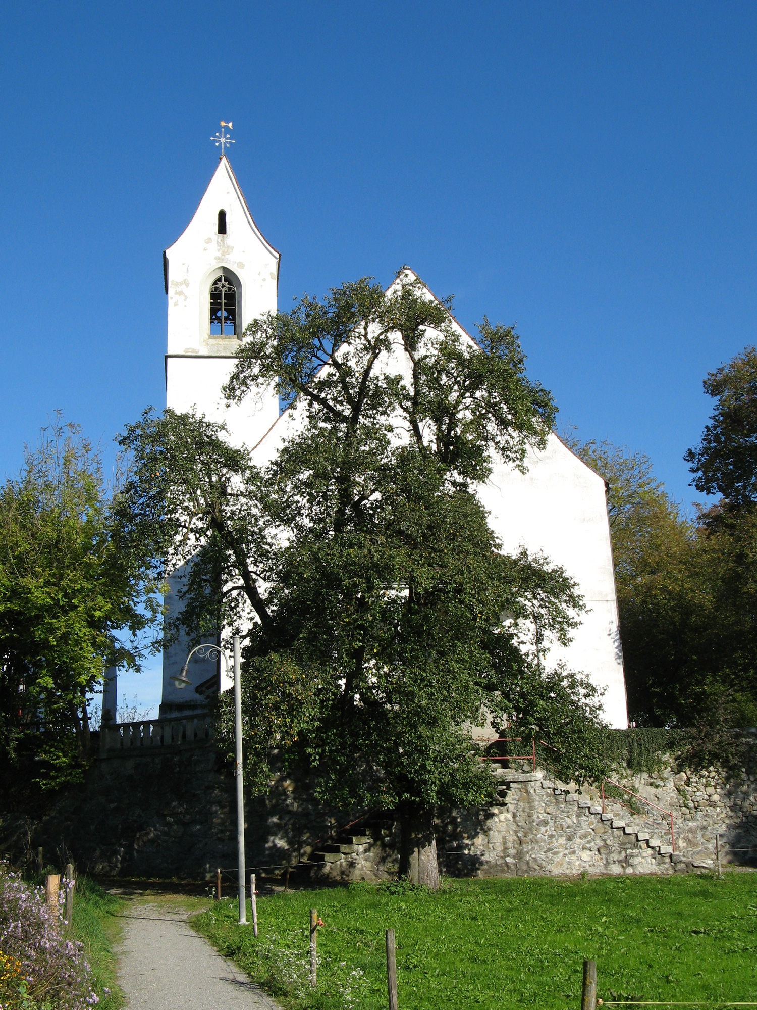 Old Church in Boswil